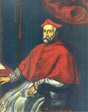 Ercole Gonzaga (1505-1563)